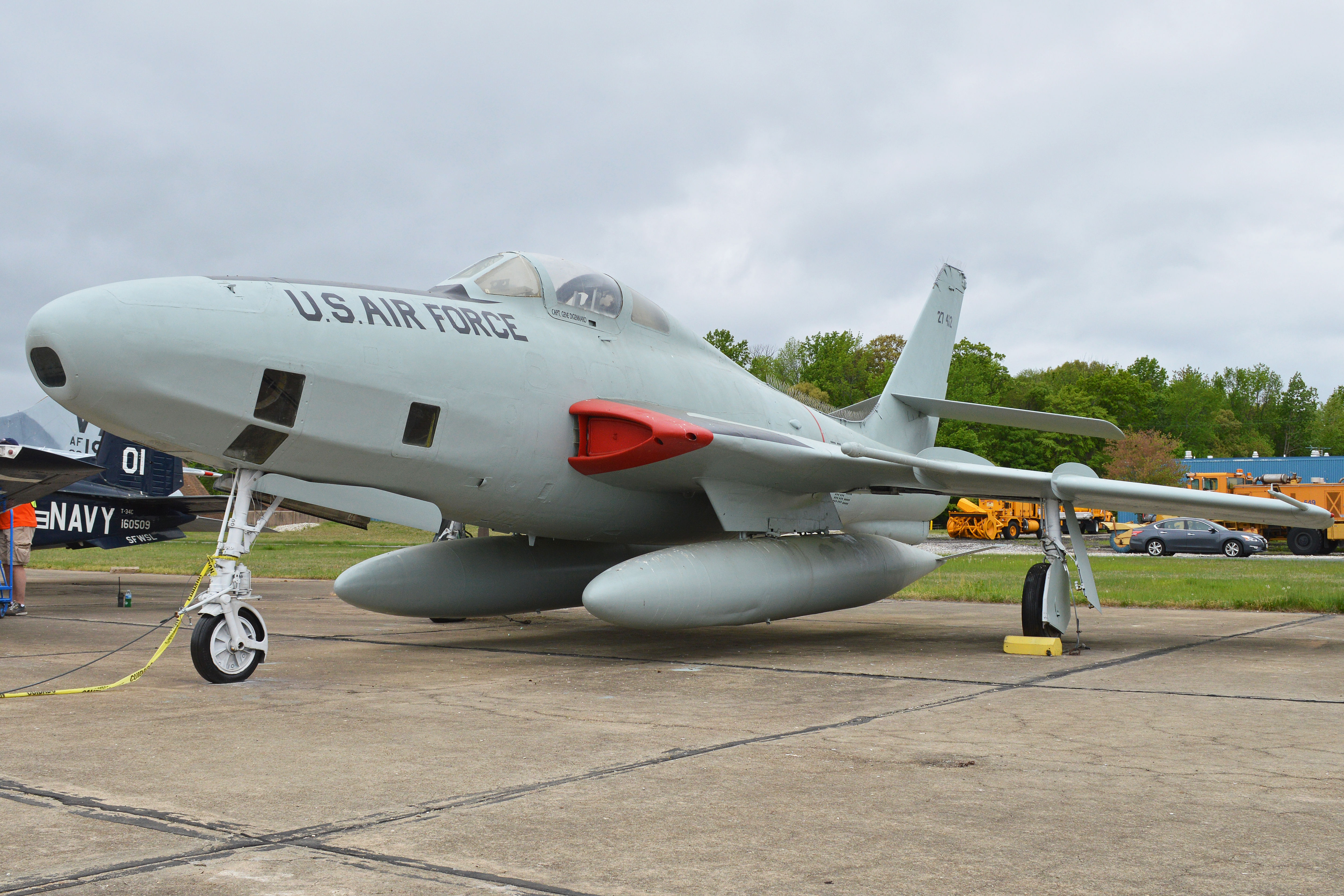 Full USAF serial 53-7554 On display with the Maryland Aviation Museum as part of the Strawberry Point Flightline. Recently repainted into a standard USAF grey scheme. Martin State Airport, Maryland, USA. 09-5-2015